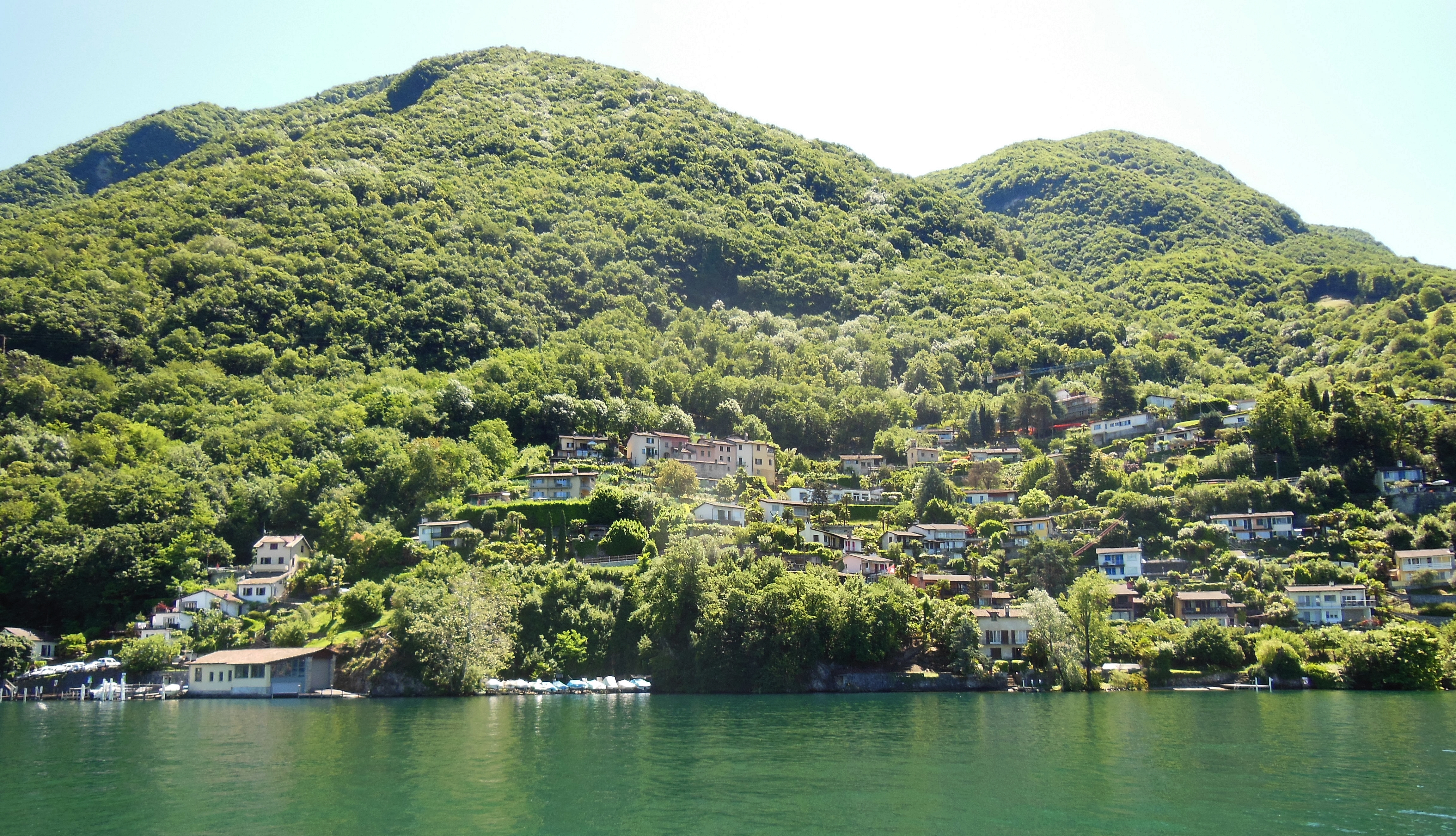 The the village of Caprino, on the south bank of Lake Lugano in the Swiss canton of Ticino, seen from the lake. For more information, see the Wikipedia article Caprino, Switzerland.